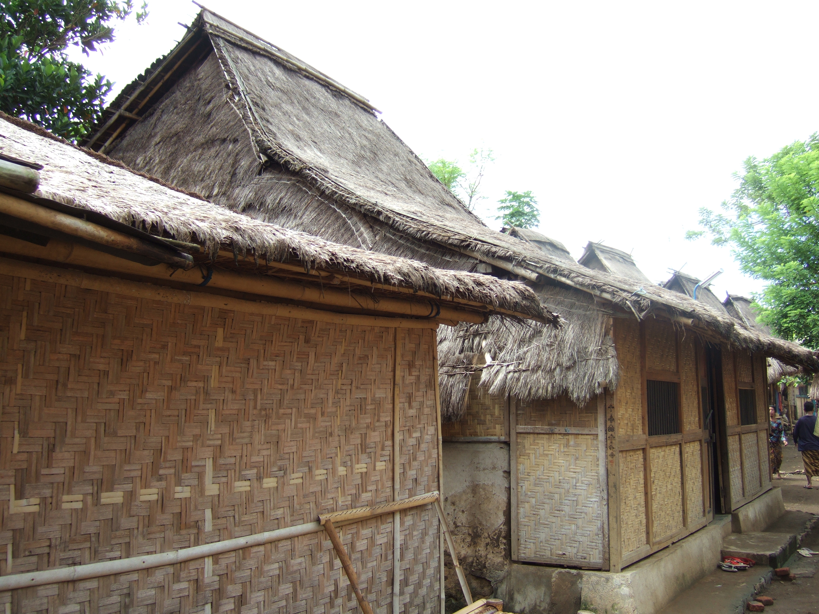 Houses at Traditional Sasak Village Desa Sade, Lombok, Indonesia